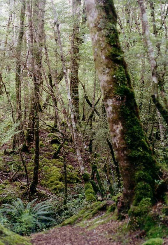 Bush close to Lake Gunn, Fiordland, New Zealand, photographed by James Dignan (User:Grutness) in November 2000.